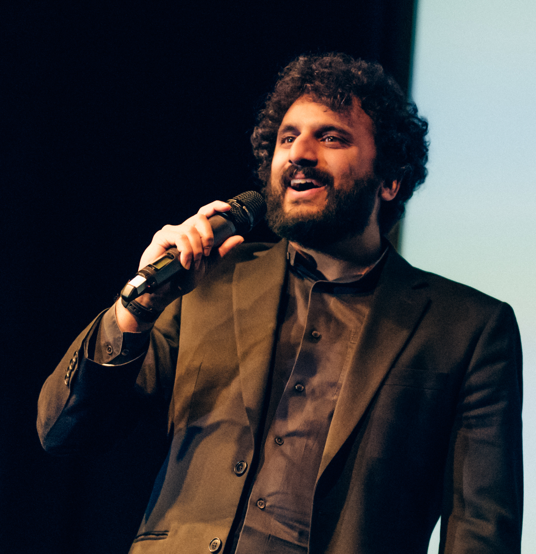 Comedian Nish Kumar hosts the 2019 Freedom of Expression Awards (Photo: Elina Kansikas for Index on Censorship)